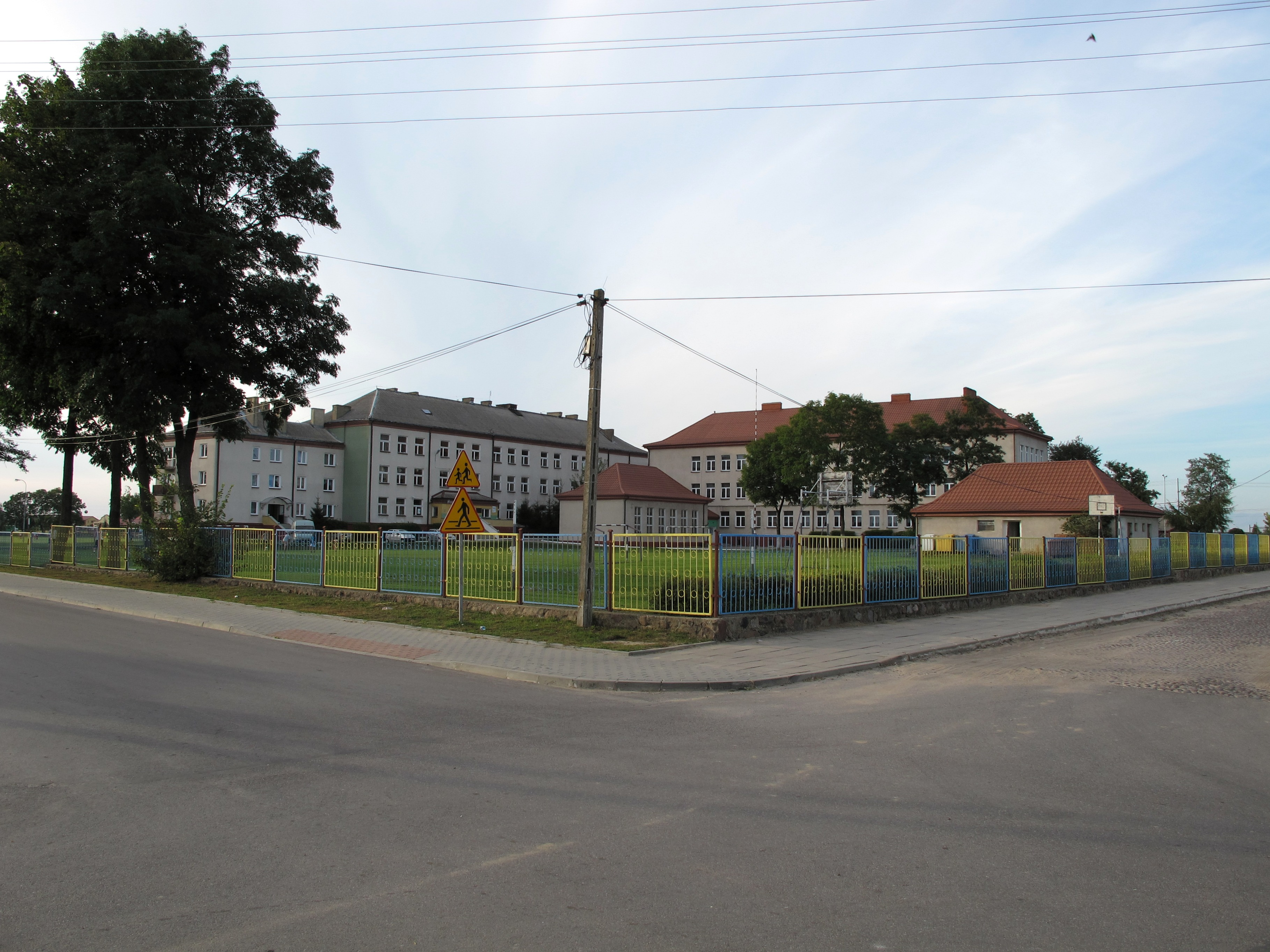 Armia Krajowa school complex by Armii Krajowej 7 street in Brańsk, gmina Brańsk, podlaskie, Poland